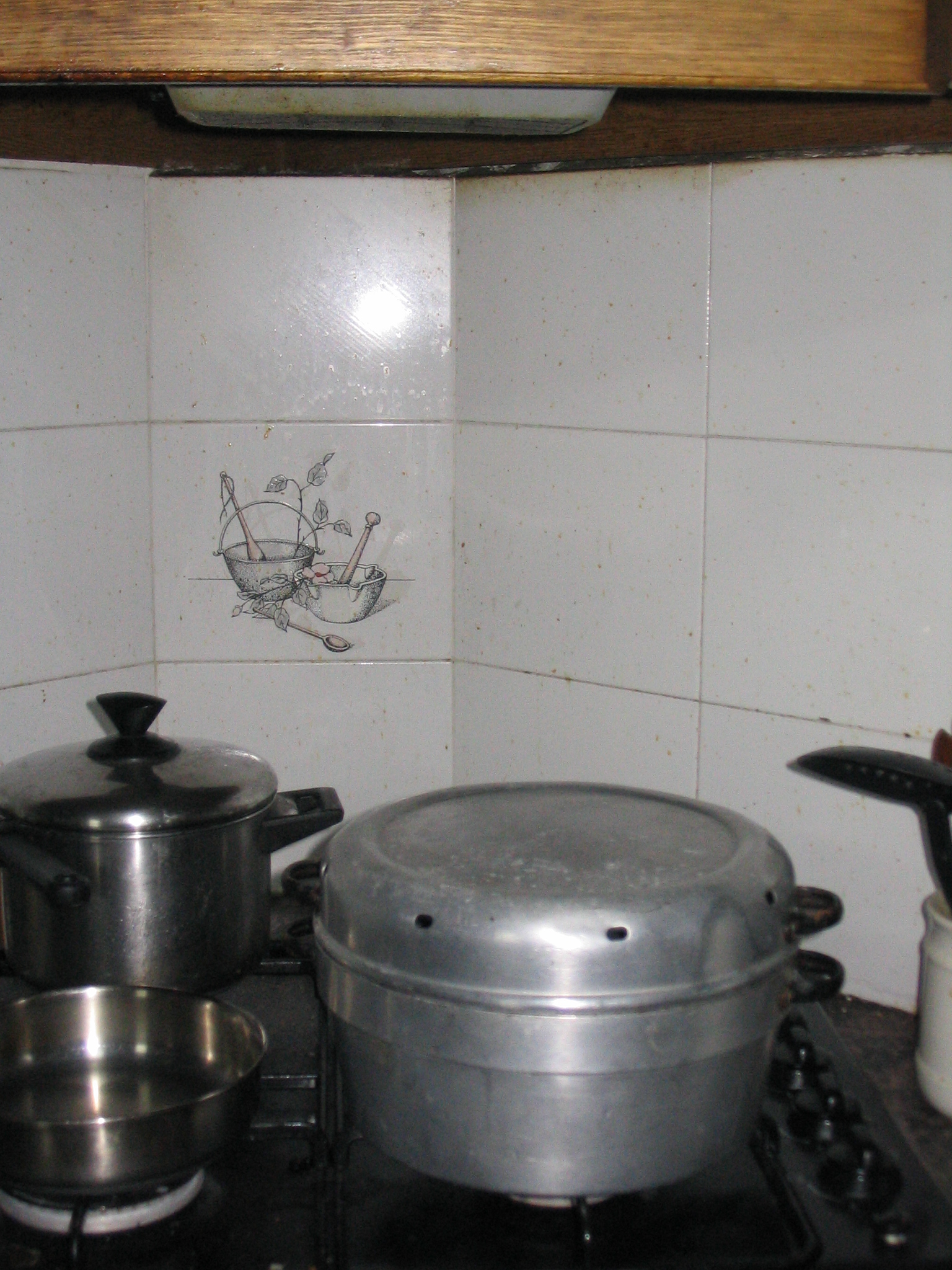 A wounder pan on the stove